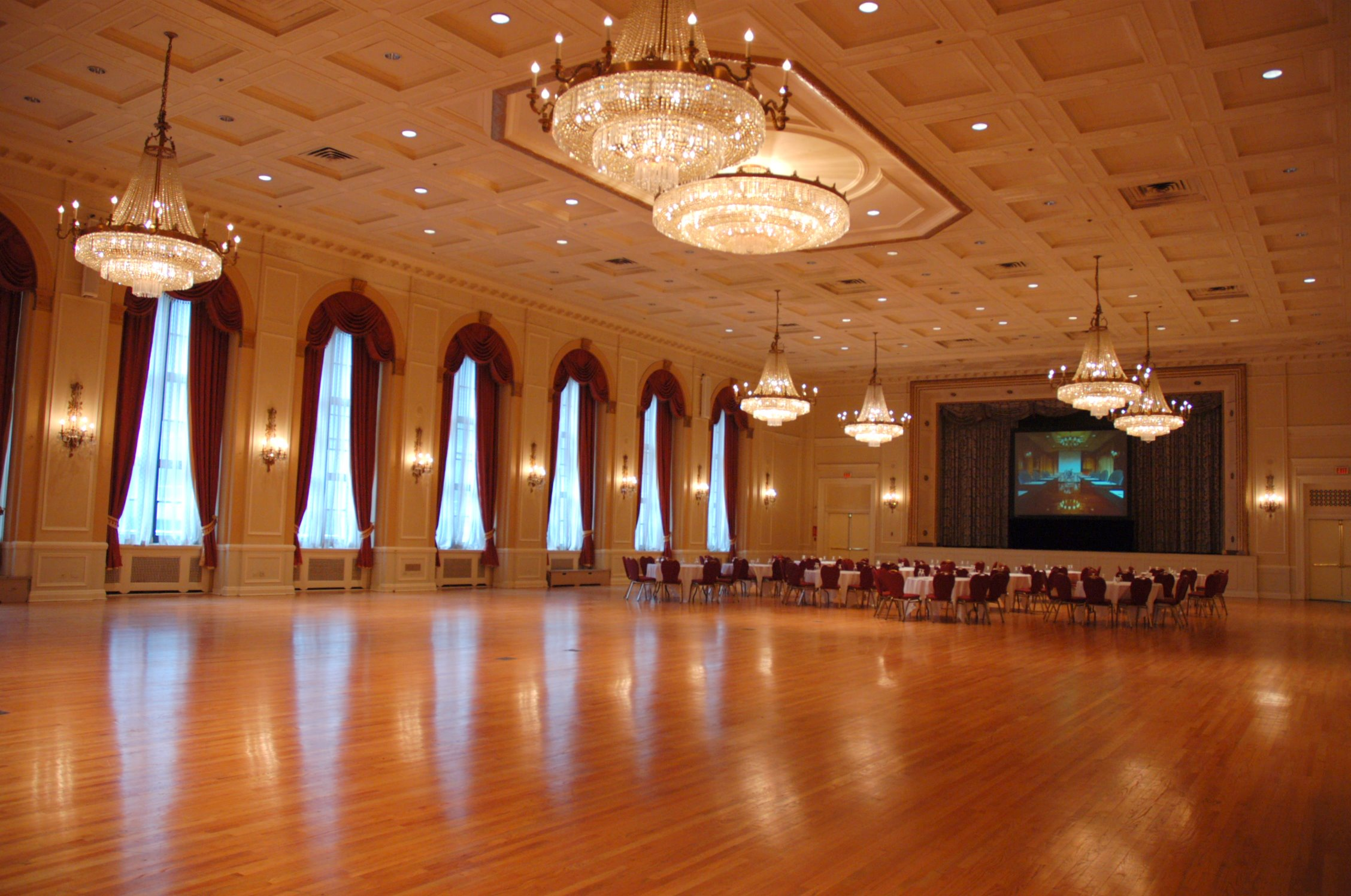 The Fairmont ROYAL YORK Hotel Toronto.